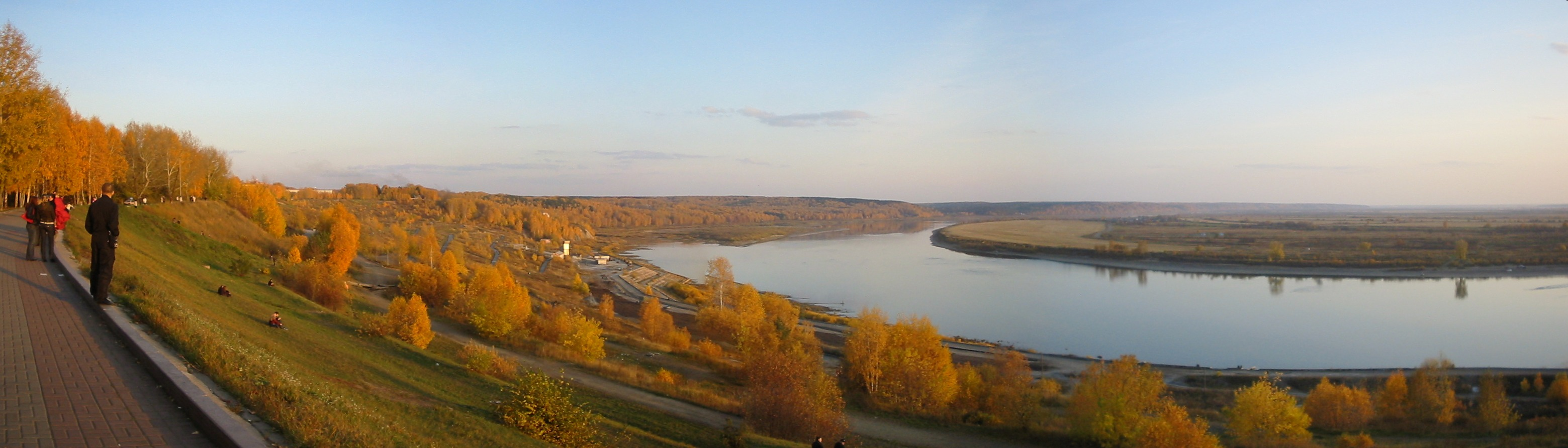 Tom River at Lagerny gardens, Tomsk